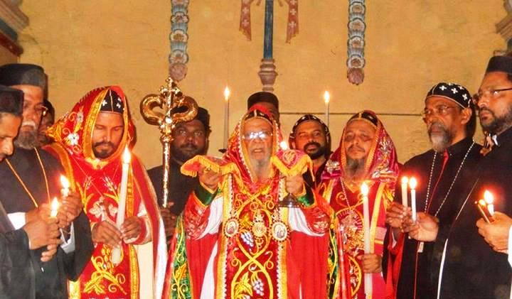 Holy mass of Jacobite Syrian Christian Church